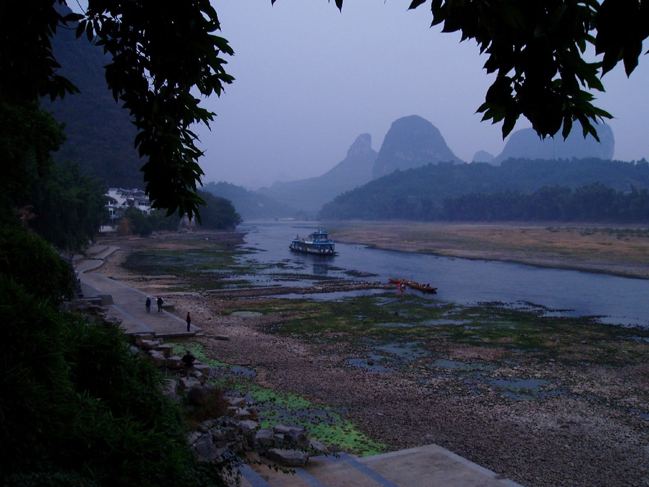 Li river in Yangshuo, Guangxi, China